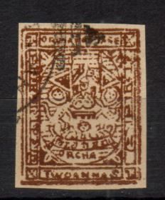 This is my scan of a stamp of Orchha, an Indian princely (feudatory) state till 1947, the 2 anna red brown of 1914. It is postally used. Addl info by Apsingh : Serial 6 for Orchha - Two anna red-brown of 1916. Ref Stanley Gibbons Stamp Catalogue Commonwealth & British Empire Stamps (1840-1970). (2008). London. Ref pg 314.